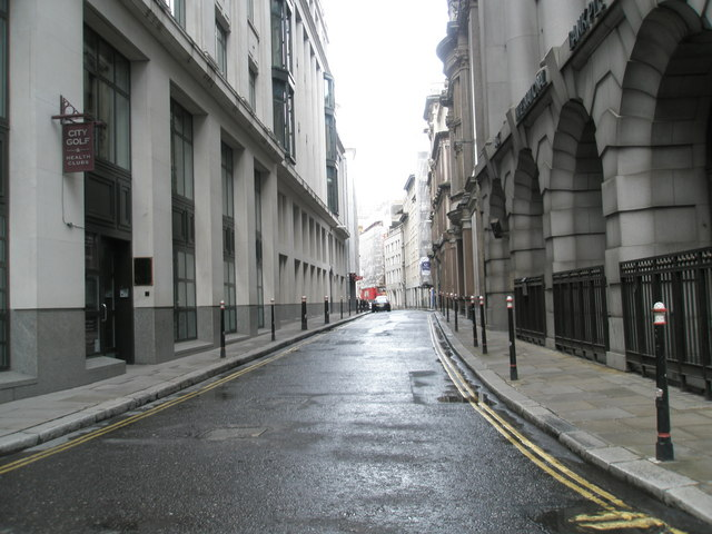 Coleman Street The name was derived from the "coalmen" or charcoal burners, who settled here.